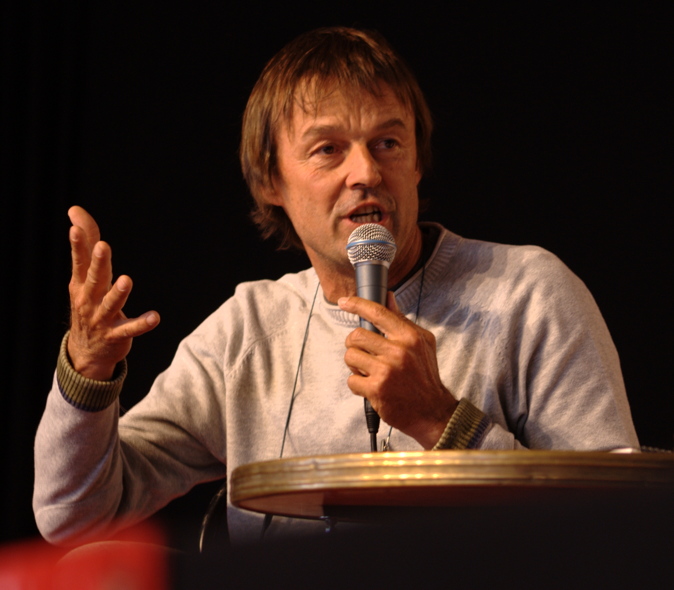 Nicolas Hulot at the Fête de l'Humanité 2008